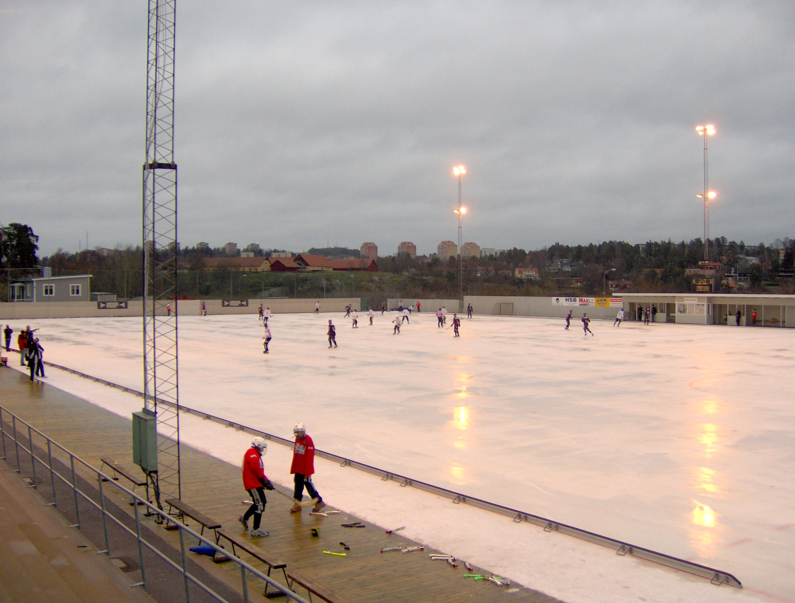 Match between AIK and Helenelund at Sollentunavallen.